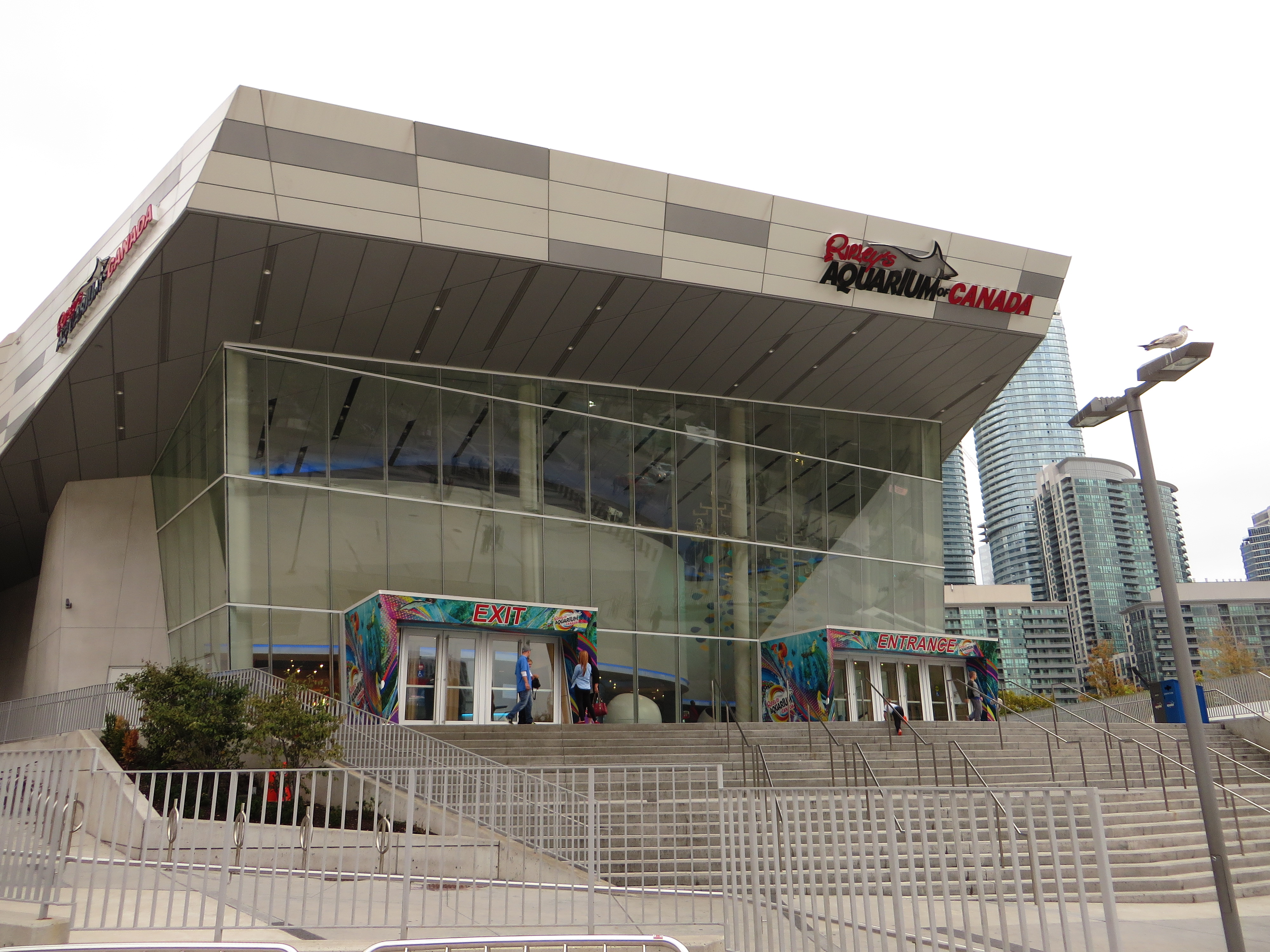 Ripley's Aquarium of Canada is a public aquarium in Toronto, Ontario. The aquarium is one of three aquariums owned and operated by Ripley Entertainment. It is located in downtown Toronto, just southeast of the CN Tower. The aquarium features several aquatic exhibits including a walk-through tank. The aquarium has 5.7 million litres (1.5 million gallons) of marine and freshwater habitats from across the world. The exhibits hold 13,500 exotic sea and freshwater specimens from more than 450 species.